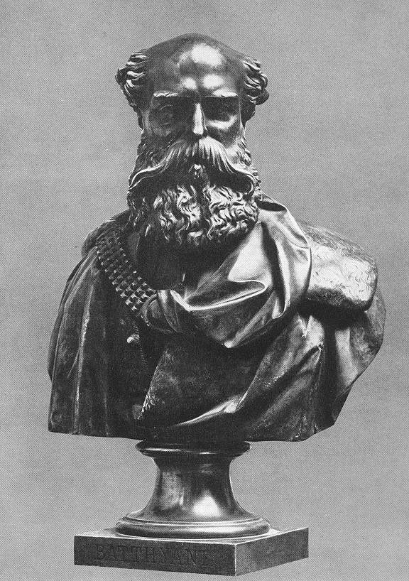 Sculptural image of Lajos Battyhany a work of Hungarian sculptor Károly Alexy in the 1840s.